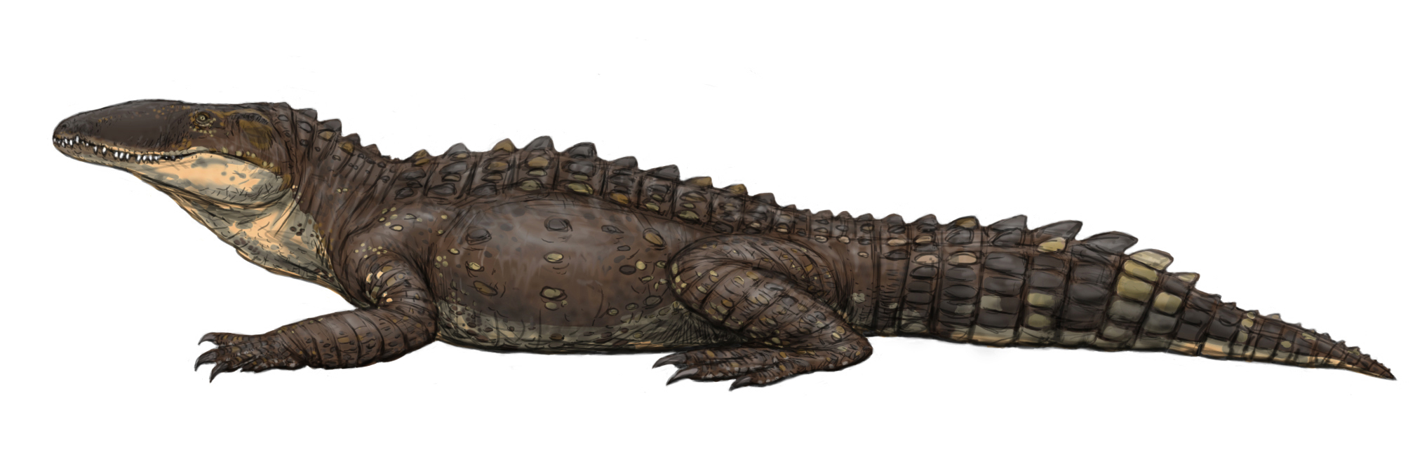 Sebecus icaeorhinus restoration.